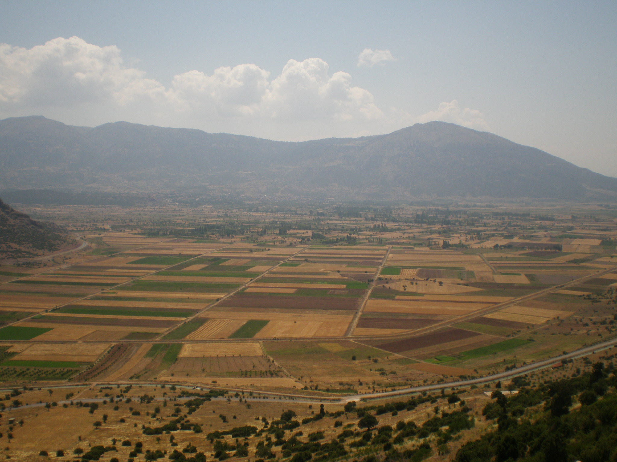 Polje in Dodurga, Acıpayam, Denizli, Turkey